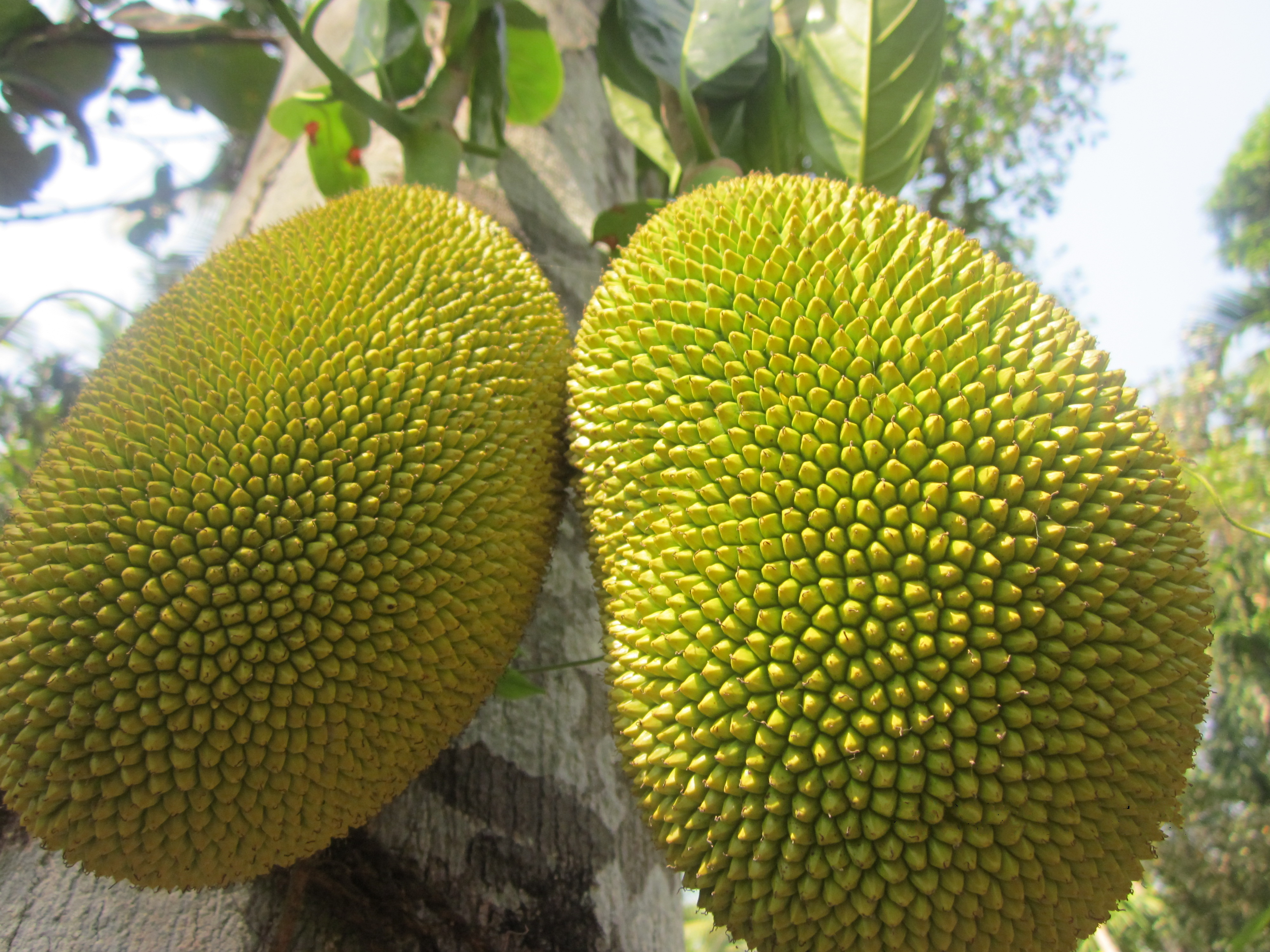 this is a picture of a jackfruit,biggest of all fruit.this is taken from east palayad,dharmadam village in kannur district,kerala